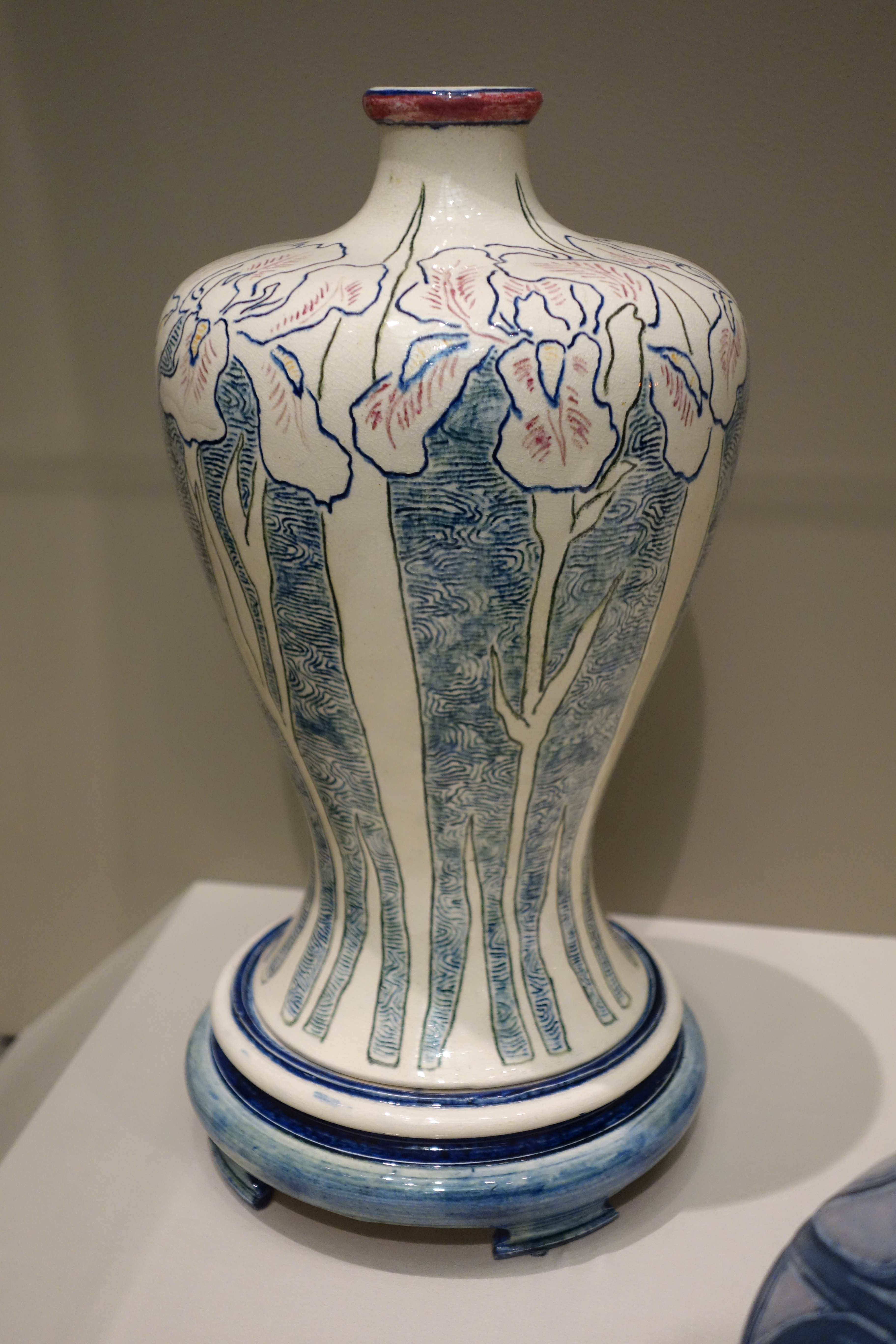 Exhibit in the Cincinnati Art Museum, Cincinnati, Ohio, USA. This artwork is in the public domain because it was first published in the United States before 1923.